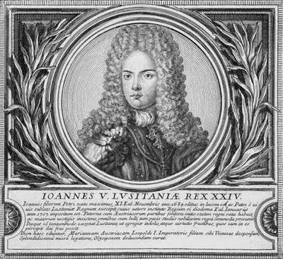 Drawing of João V as King of Portugal by an unknown artist